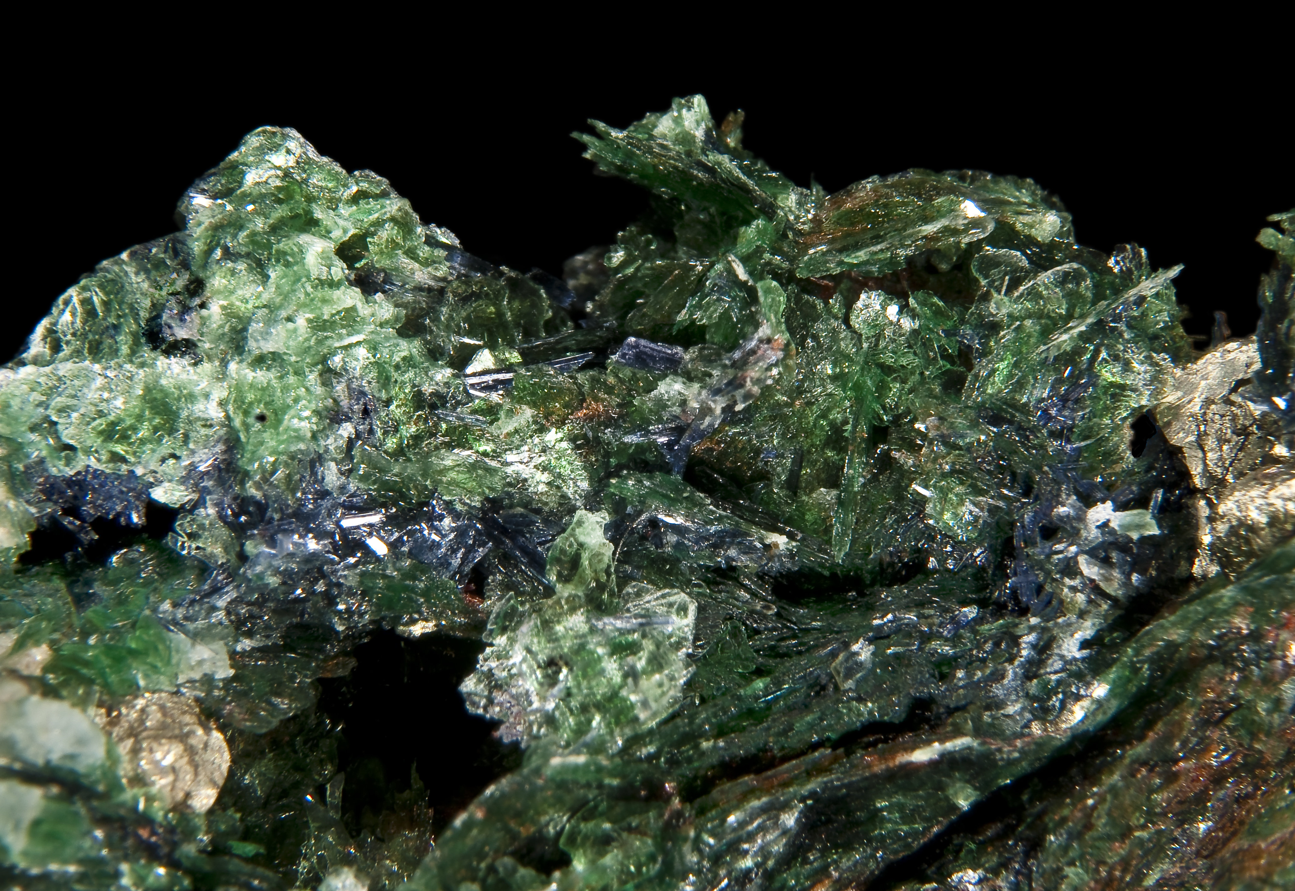 Fuchsite (Var. of Muscovite) and Glaucophane Locality : Groix Island, Groix, Morbihan, Brittany, France Size View 2.5cm